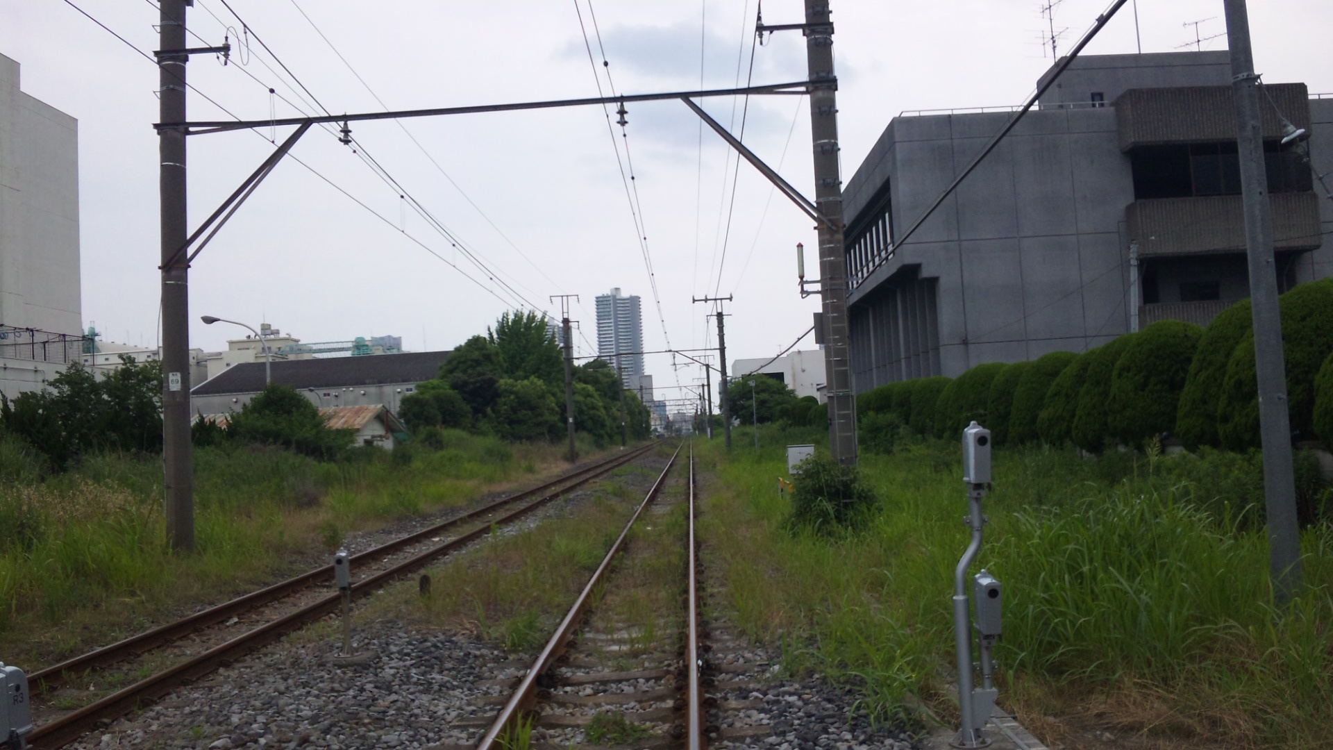 JR Kamotu takashima line